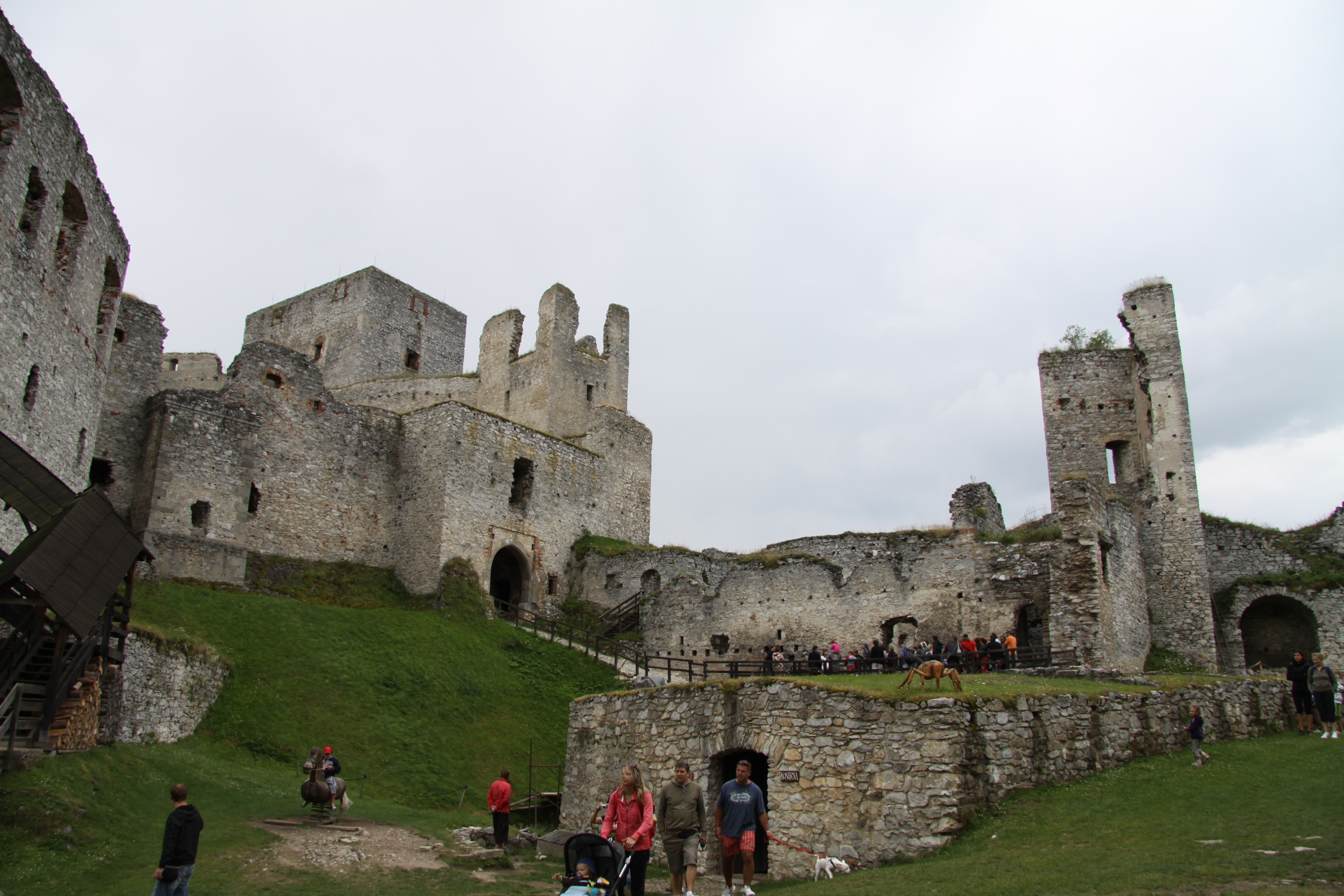 Castle Rabí in South Bohemia region, Czech Republic.There are horse stables in downer part of image, in the middle is Fourth gate and waiter main tower of castle.